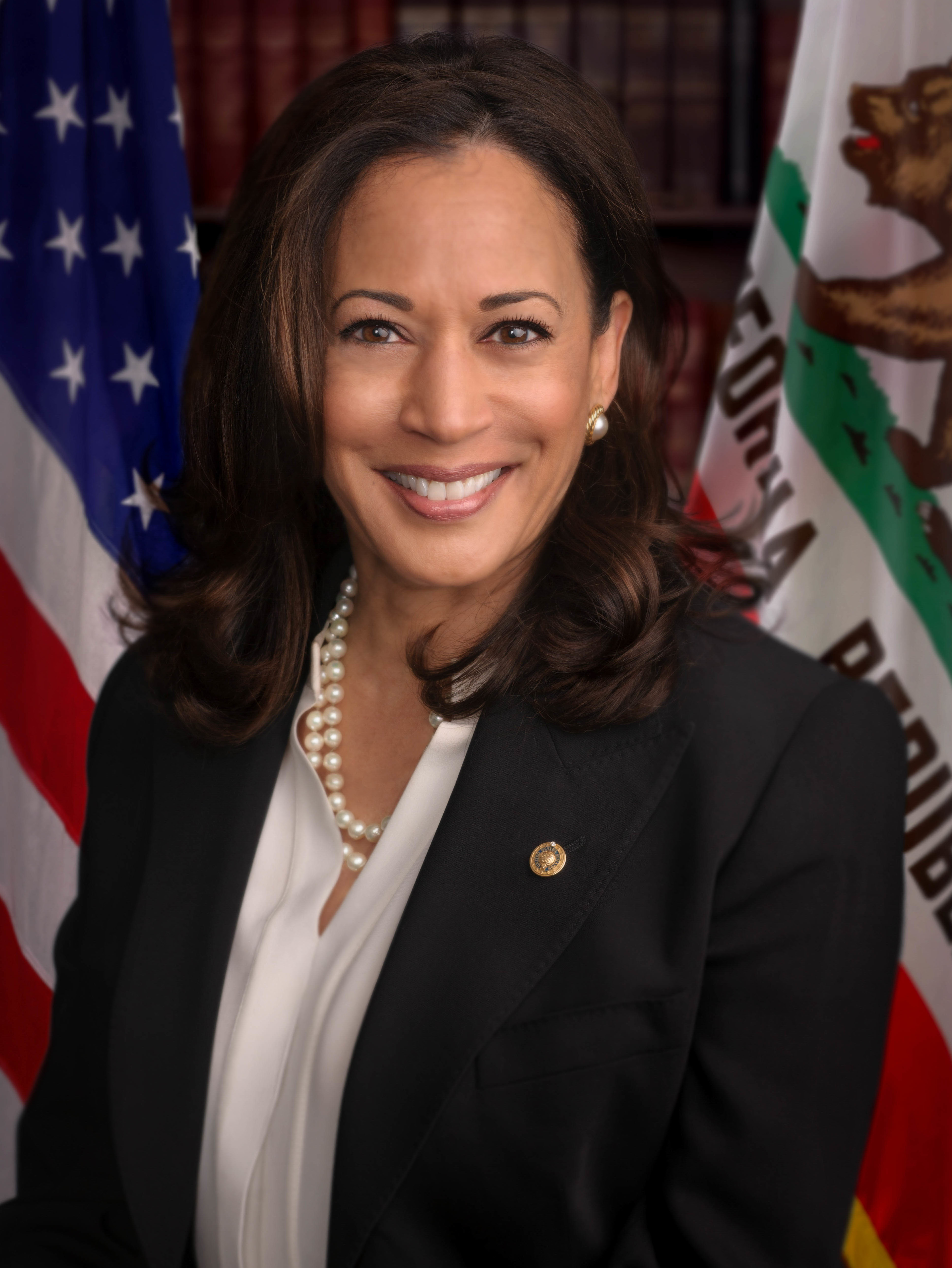 Official headshot of United States Senator Kamala Harris (D-CA).